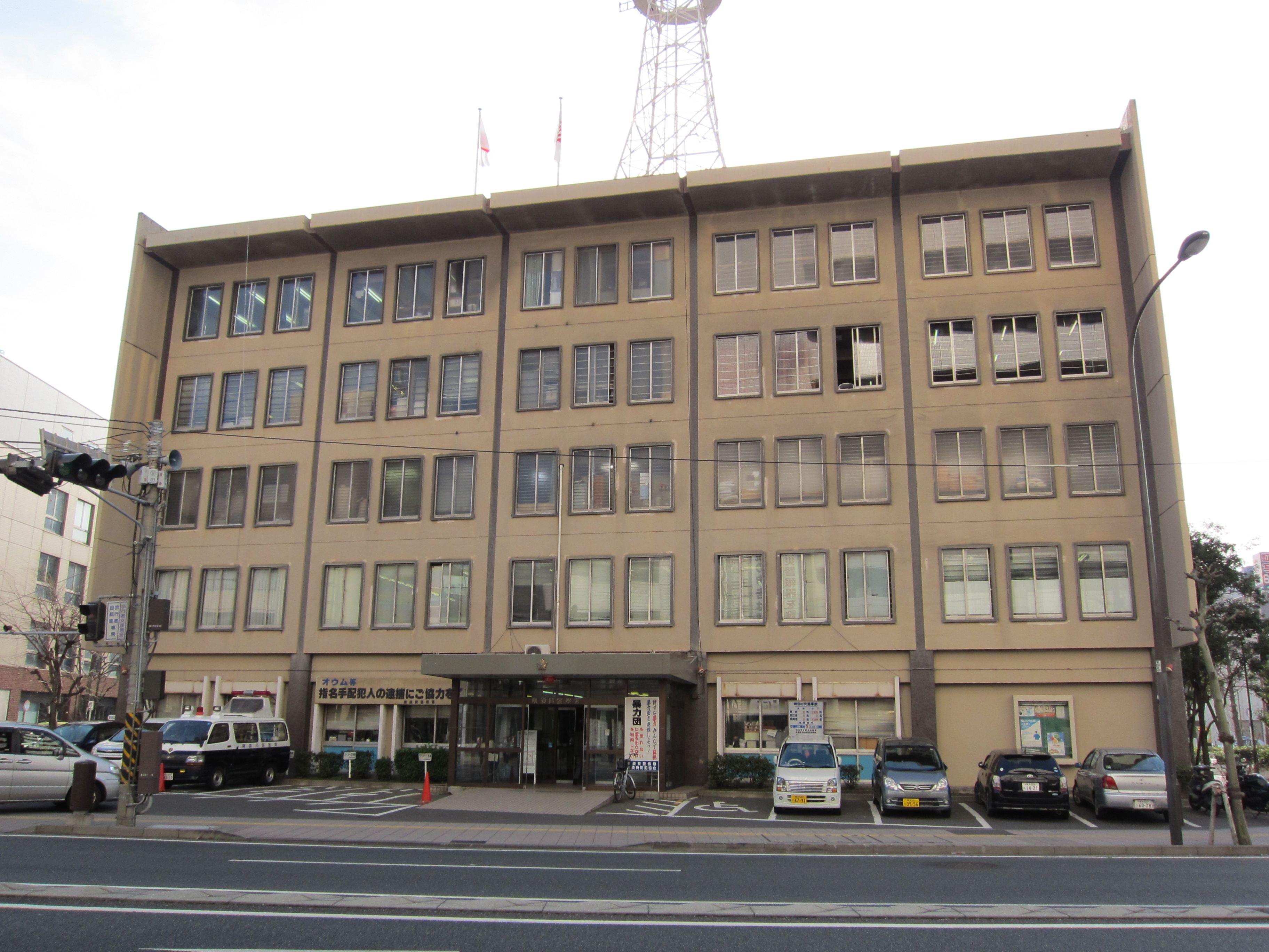 Yokosuka Police Station